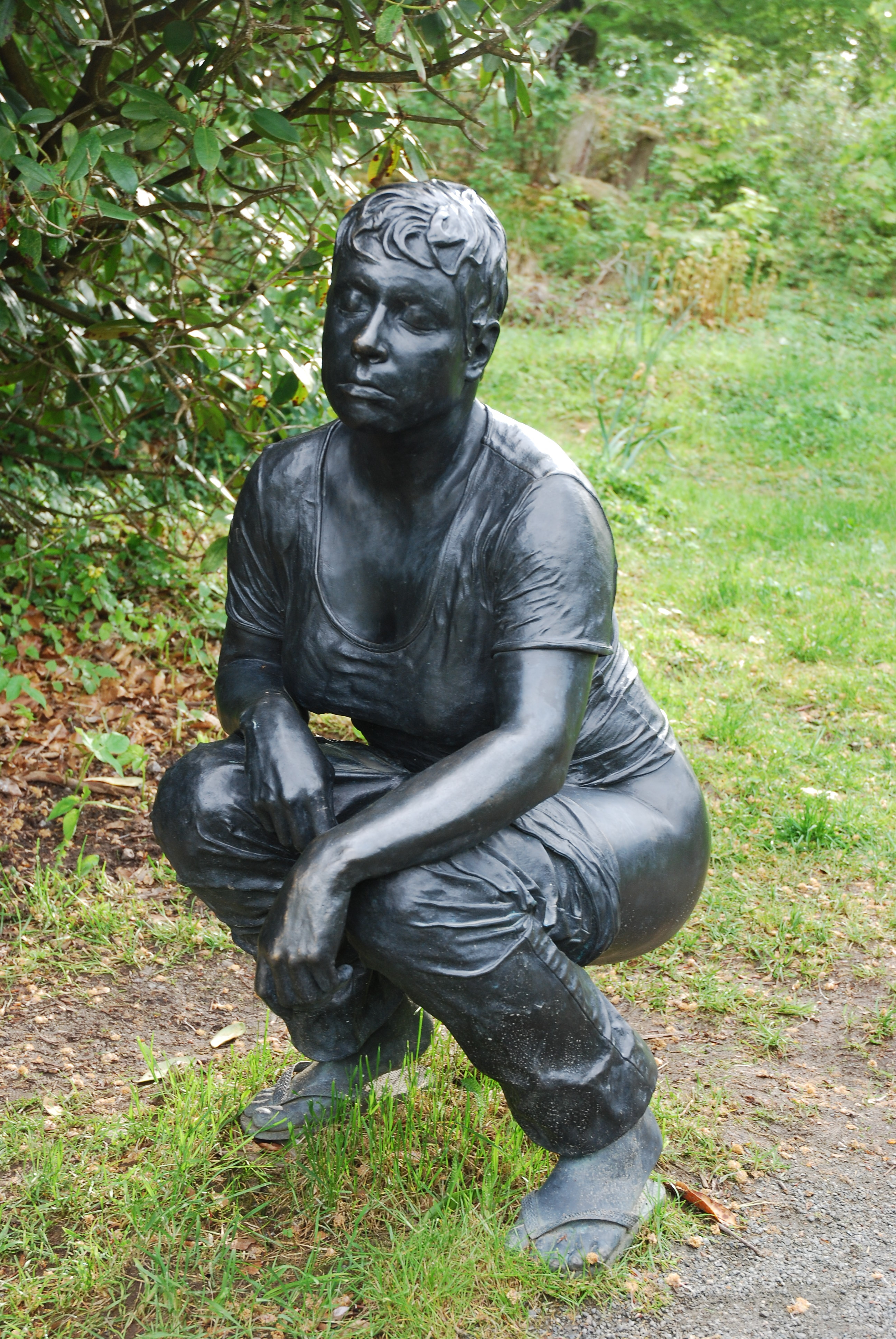 Ann-Sofi Sidén´s Fideicommissum, bronze 1992, in Wanås Castle Park, Sweden